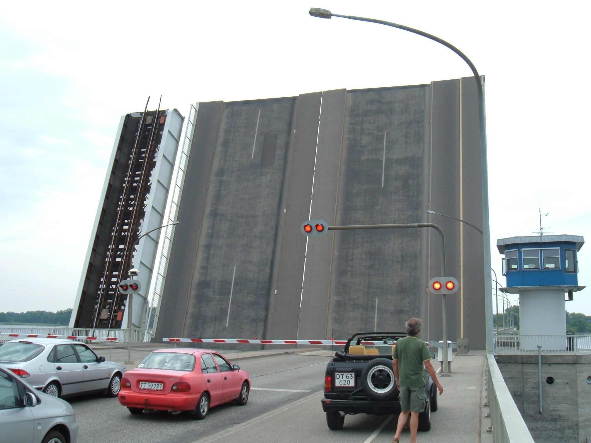 Frederick IX bridge at Nykobing Falster between the islands of Falster and Lolland in south Denmark. View from falster showing raised bascules. Taken by contributor, July 2006.